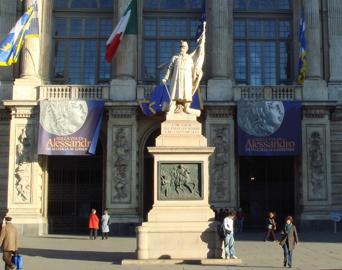 Entrance to the Ancient Art Museum in Palazzo Madama, Turin.